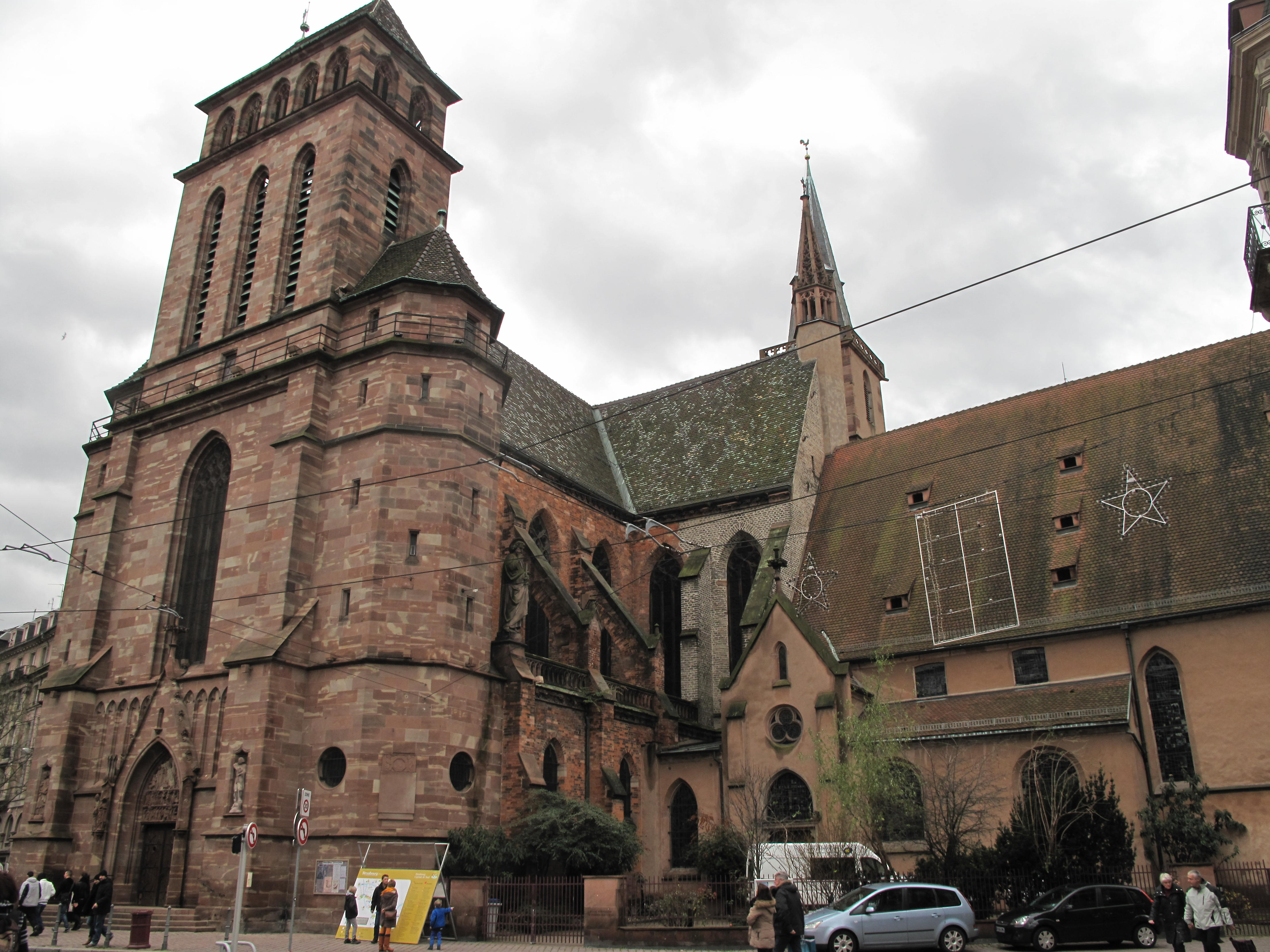 Side view of the church Saint-Pierre-le-Vieux by day in Strasbourg, (Bas-Rhin, France).